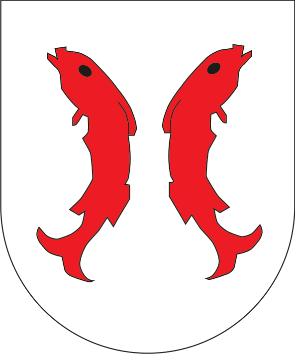 coats of arms of the county of Lower Salm